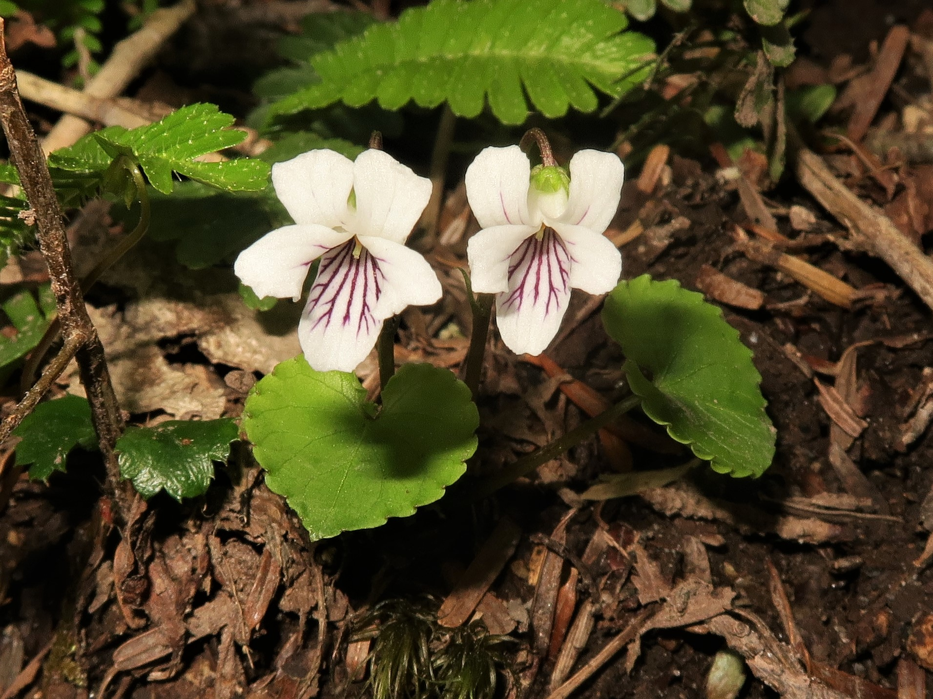 Viola blandiformis, Aizu area, Fukushima pref., Japan